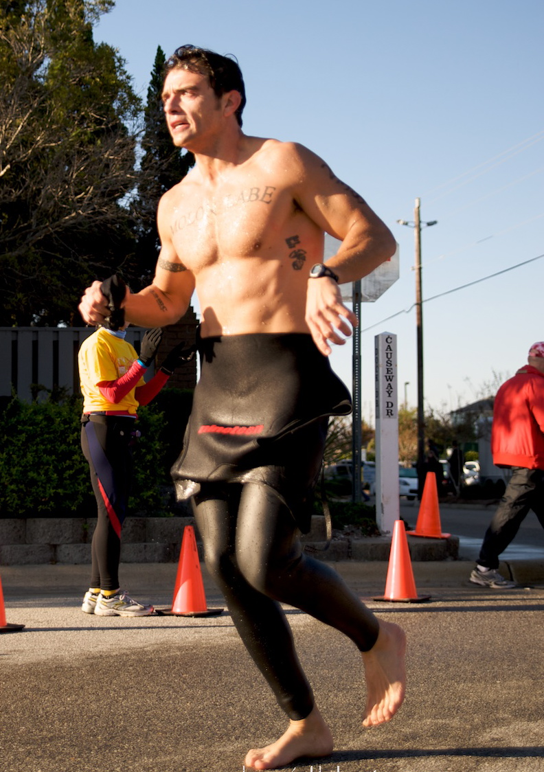 Ilario Pantano completed a triathlon at PPD Beach2Battleship Wilmington, NC